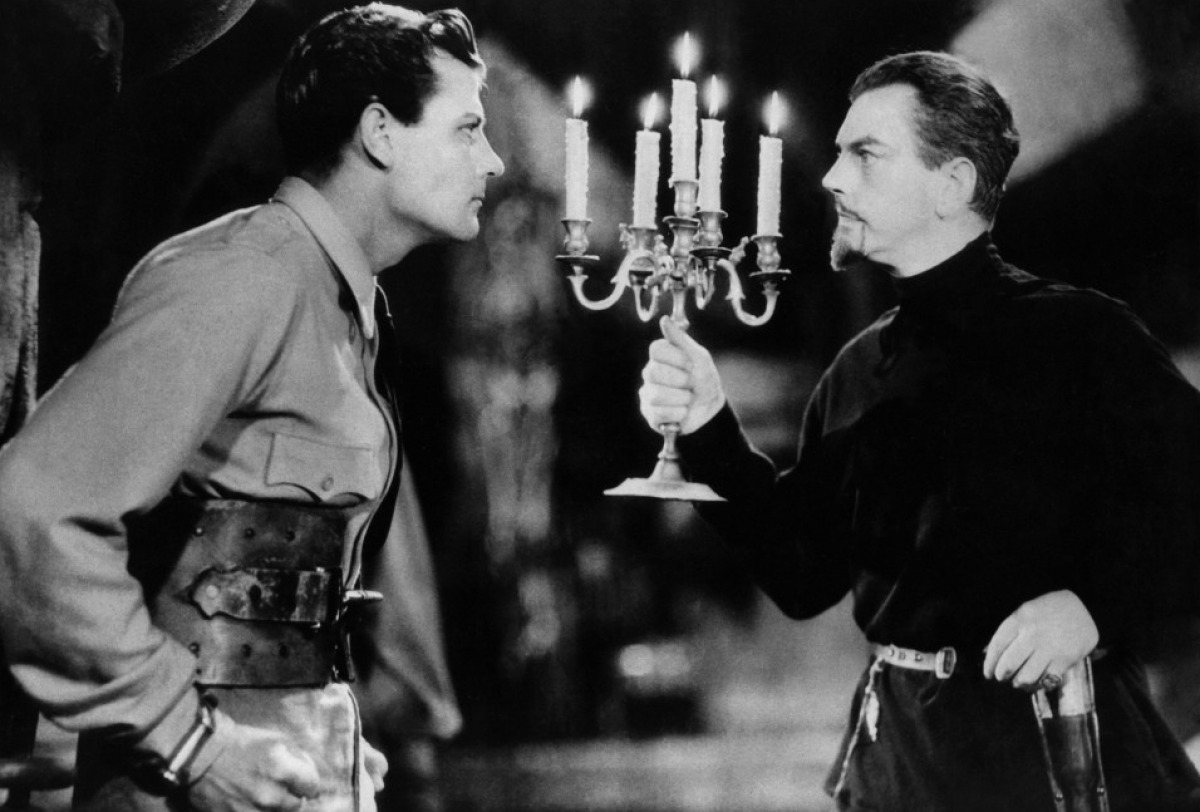 Joel McCrea & Leslie Banks in The Most Dangerous Game - cropped screenshot